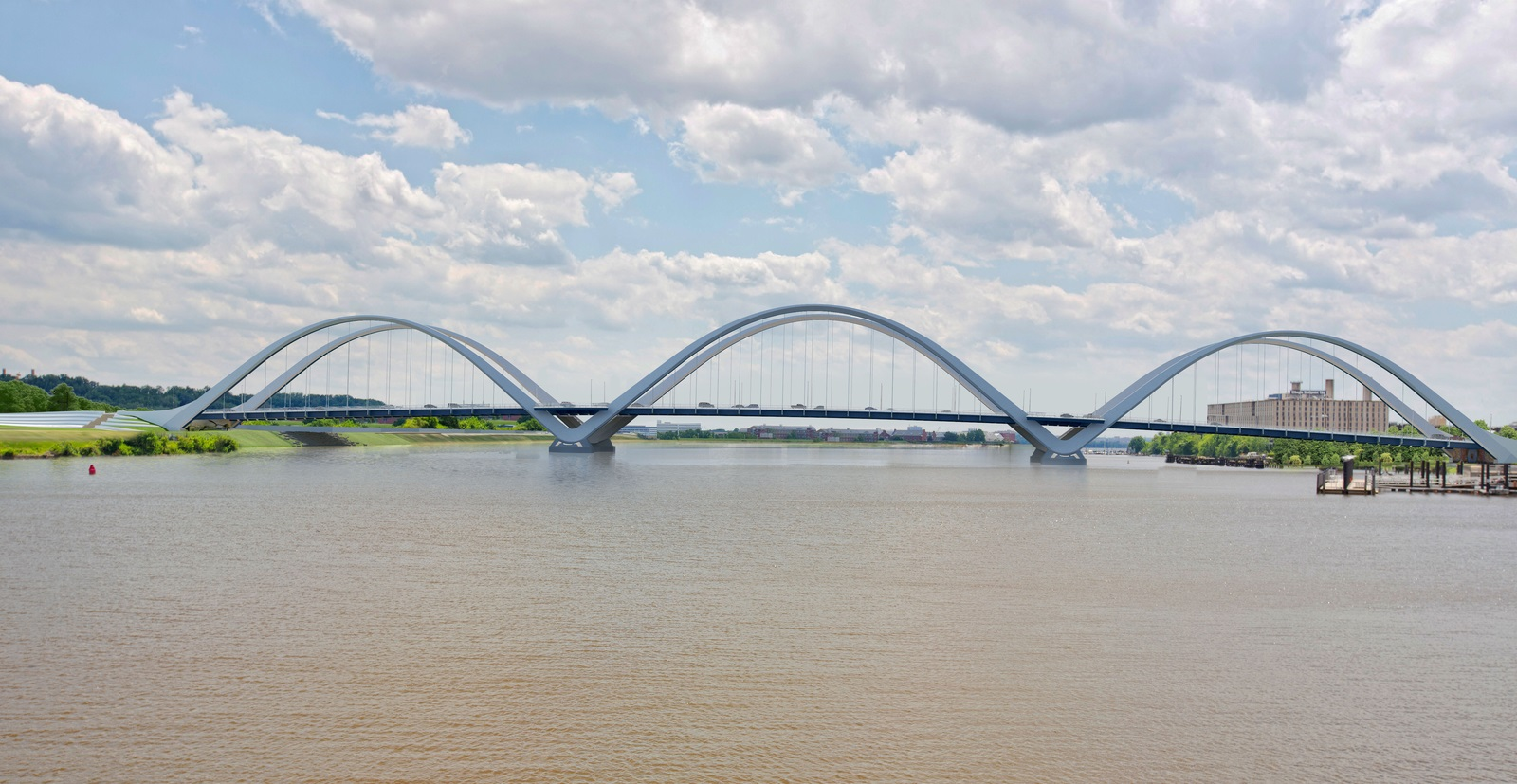 Design drawing showing the proposed replacement Frederick Douglass Memorial Bridge, as proposed by the District of Columbia Department of Transportation on August 10, 2017.